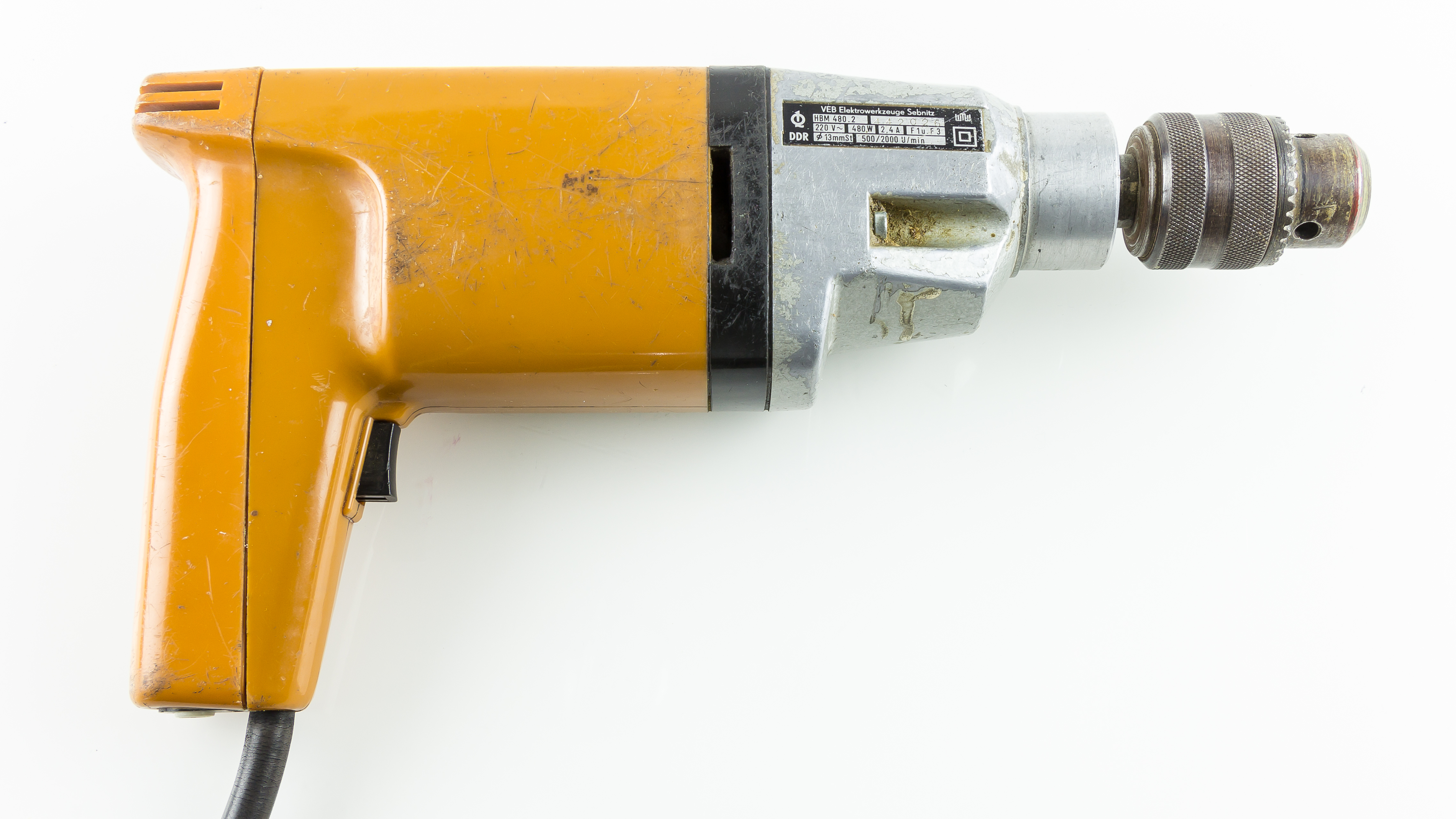 Drill Smalcalda, made by "VEB Elektrowerkzeuge Sebnitz"